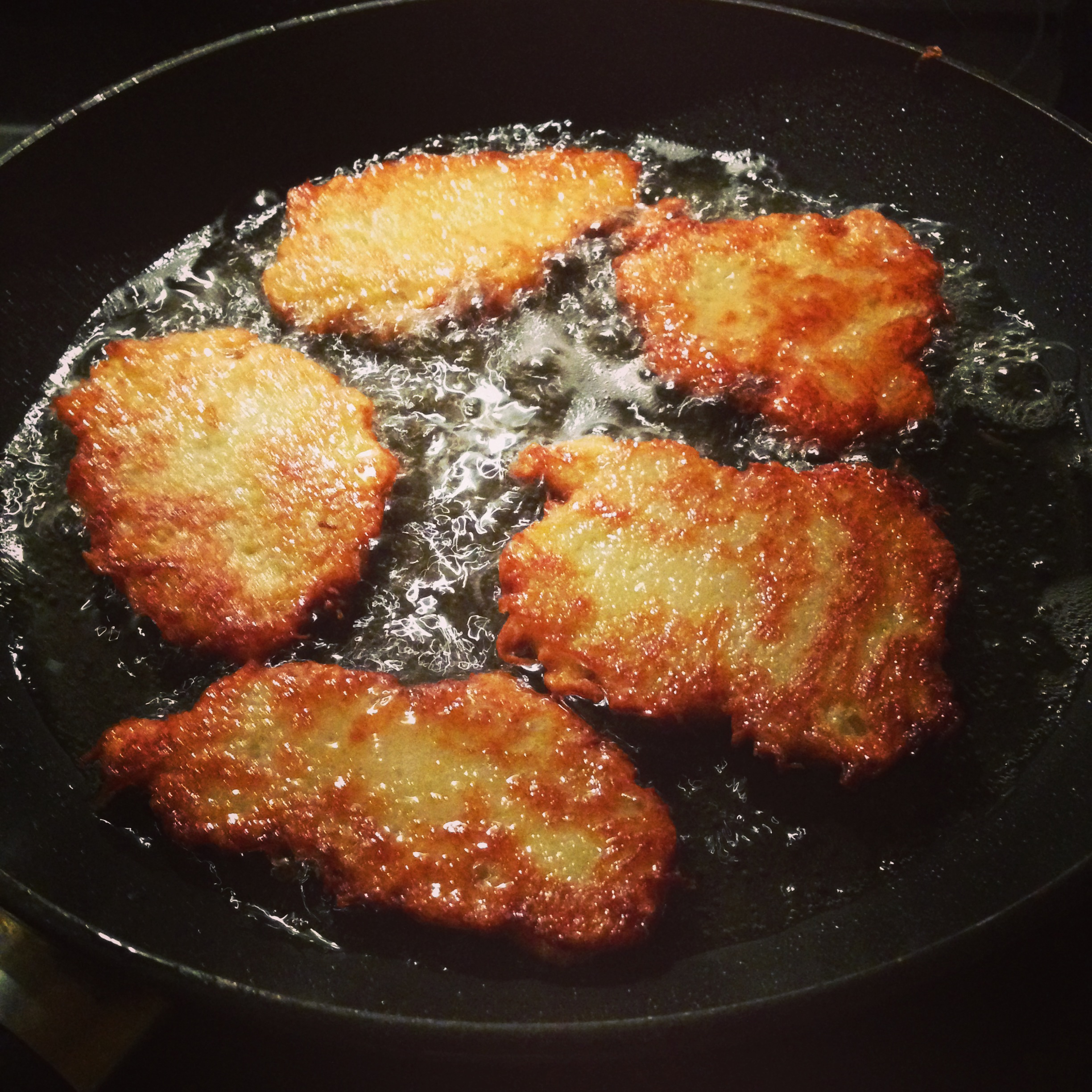 Potato pancakes in a frying pan